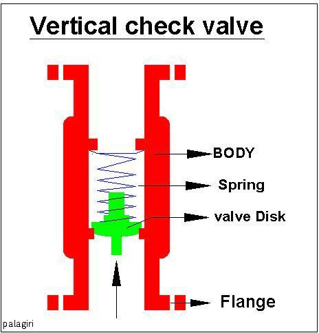 It is non return check valve.it allows liquids to travel upward only